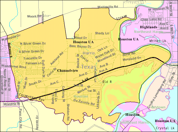 Map of Channelview CDP